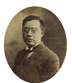 Kim Kyu-sik, Korean independent activists and politicians, Vicepresident of Provisional Govement of Korea